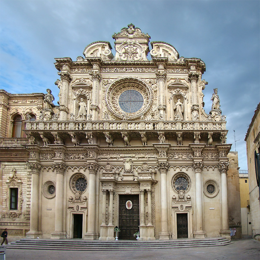 Basilica di Santa Croce, Lecce, Apulia, Italy.